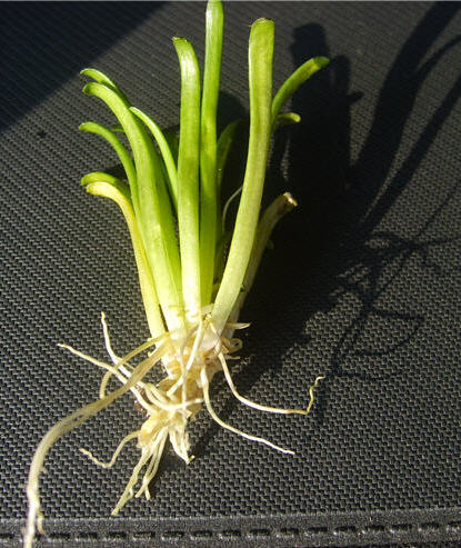 Close-up pic of young Lobelia dortmanna